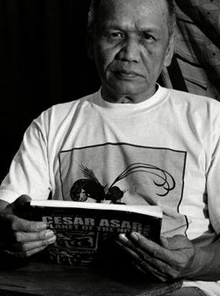 from the book "Philippine New Wave: This is not a Film Movement"